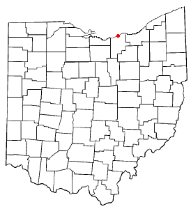 Transparent map showing the locaion of Lorain, Ohio